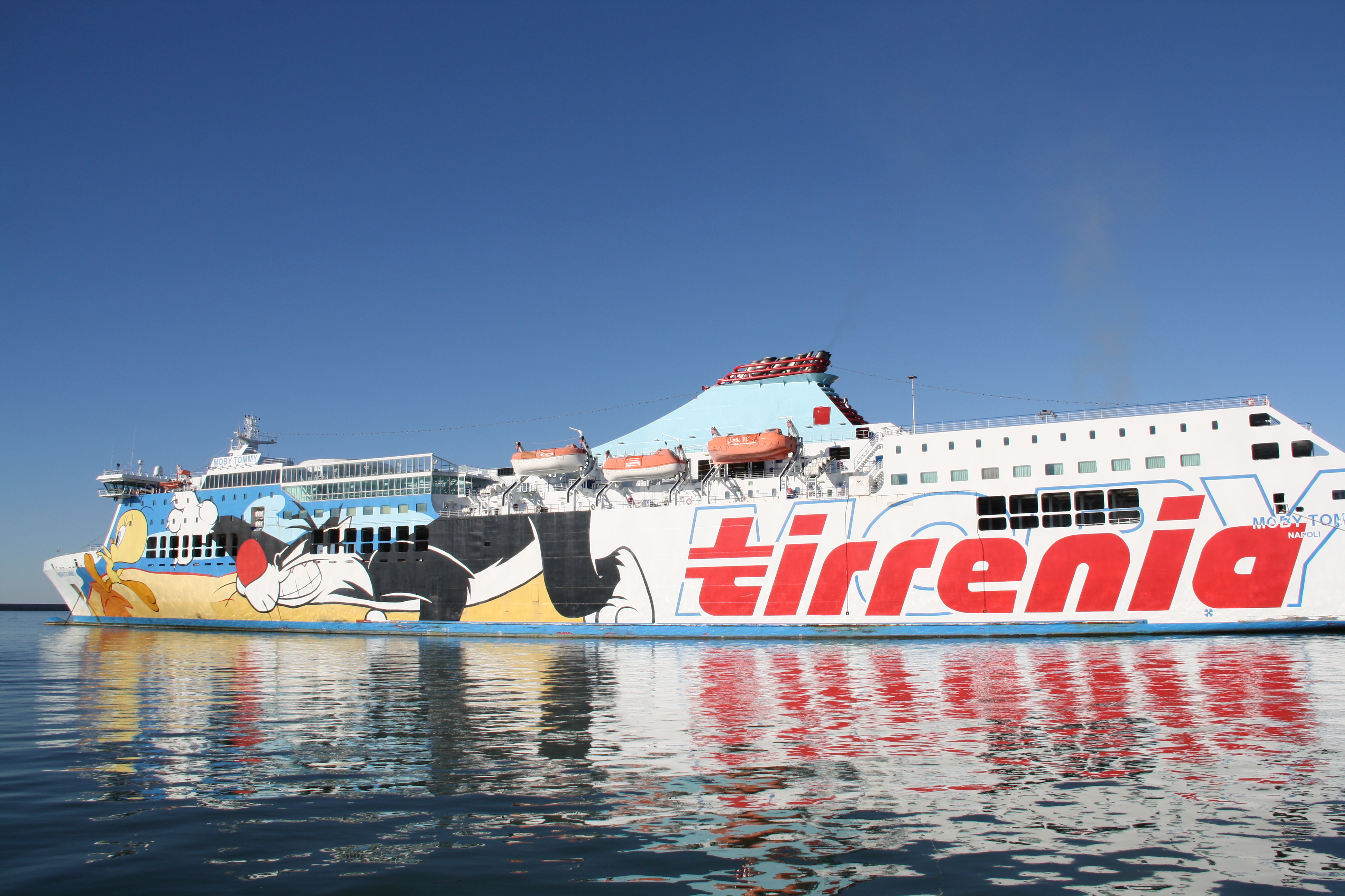 Italy, Port of Livorno. The Moby Lines ferry MS Moby Tommy berthed at “Andana degli Anelli” wharf of “Porto Mediceo”.